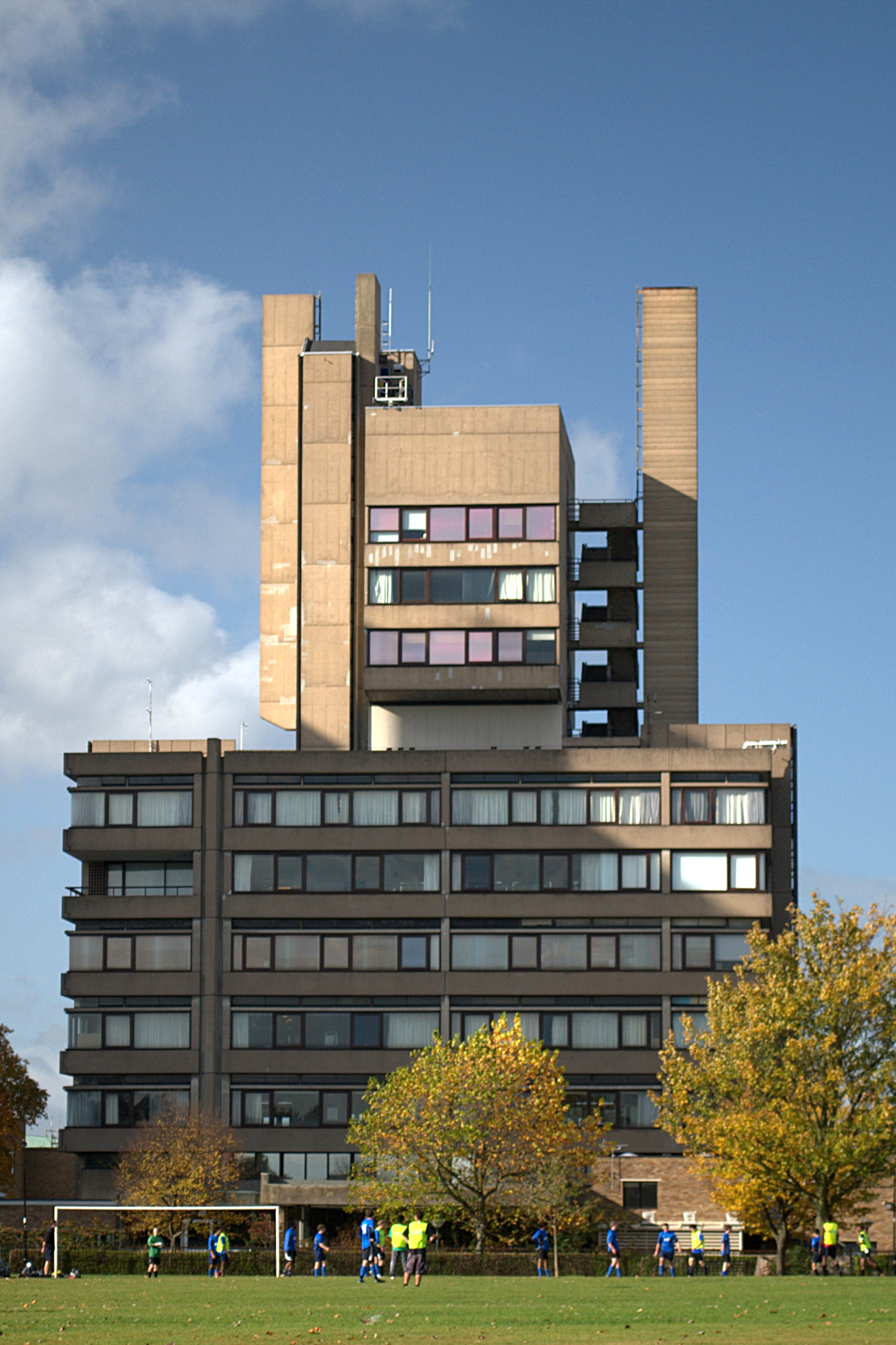 The Charles Wilson Building (designed by Denys Lasdun) at the University of Leicester, seen from Victoria Park